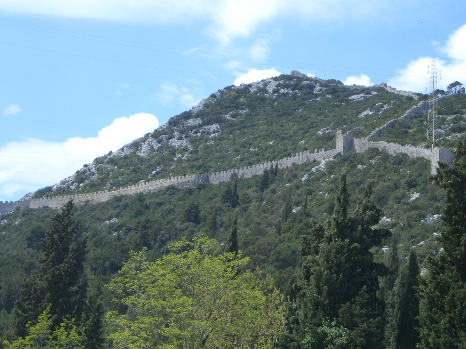 Wall of Ston from Malaston